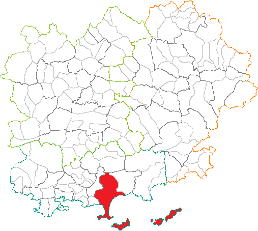 Hyères localization on Var map